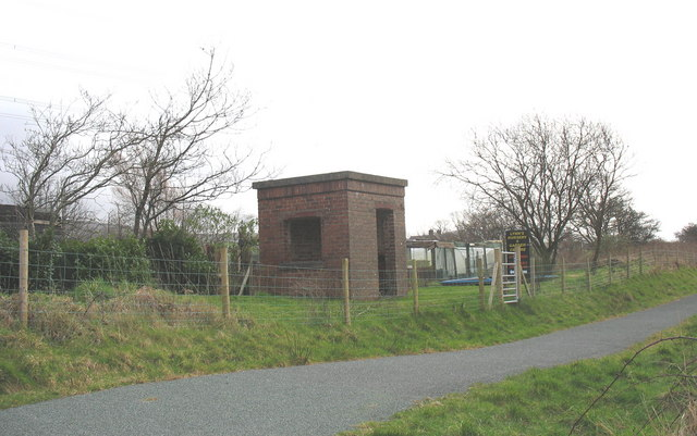 Pant Glas railway station Original description: Hardly Euston or St Pancras This is - or, rather, was - Pant Glas station. The brick building was the waiting room. As it was a single track line there was no need for more than one platform.